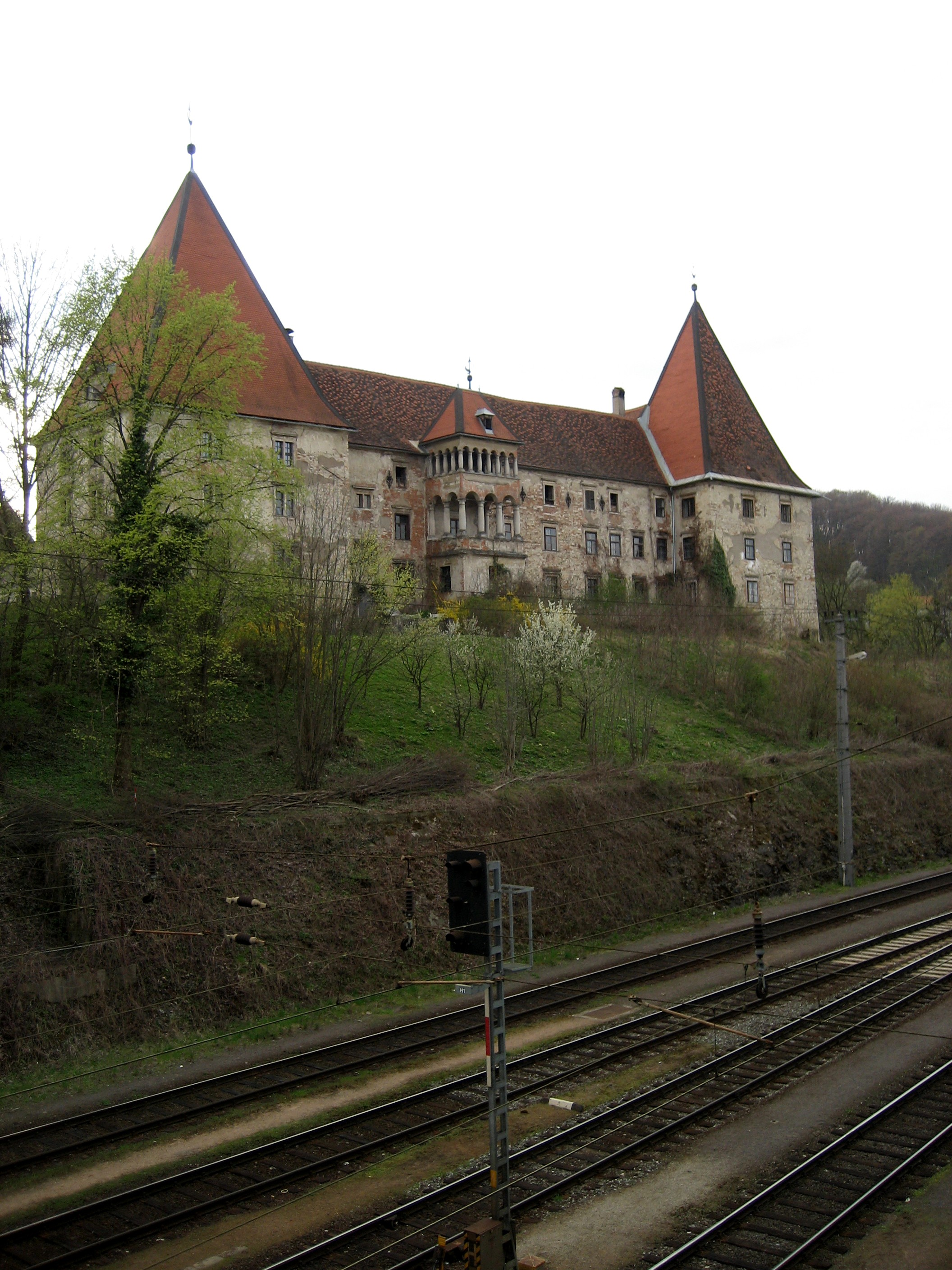 Spielfeld castle in Styria, Austria, Europe